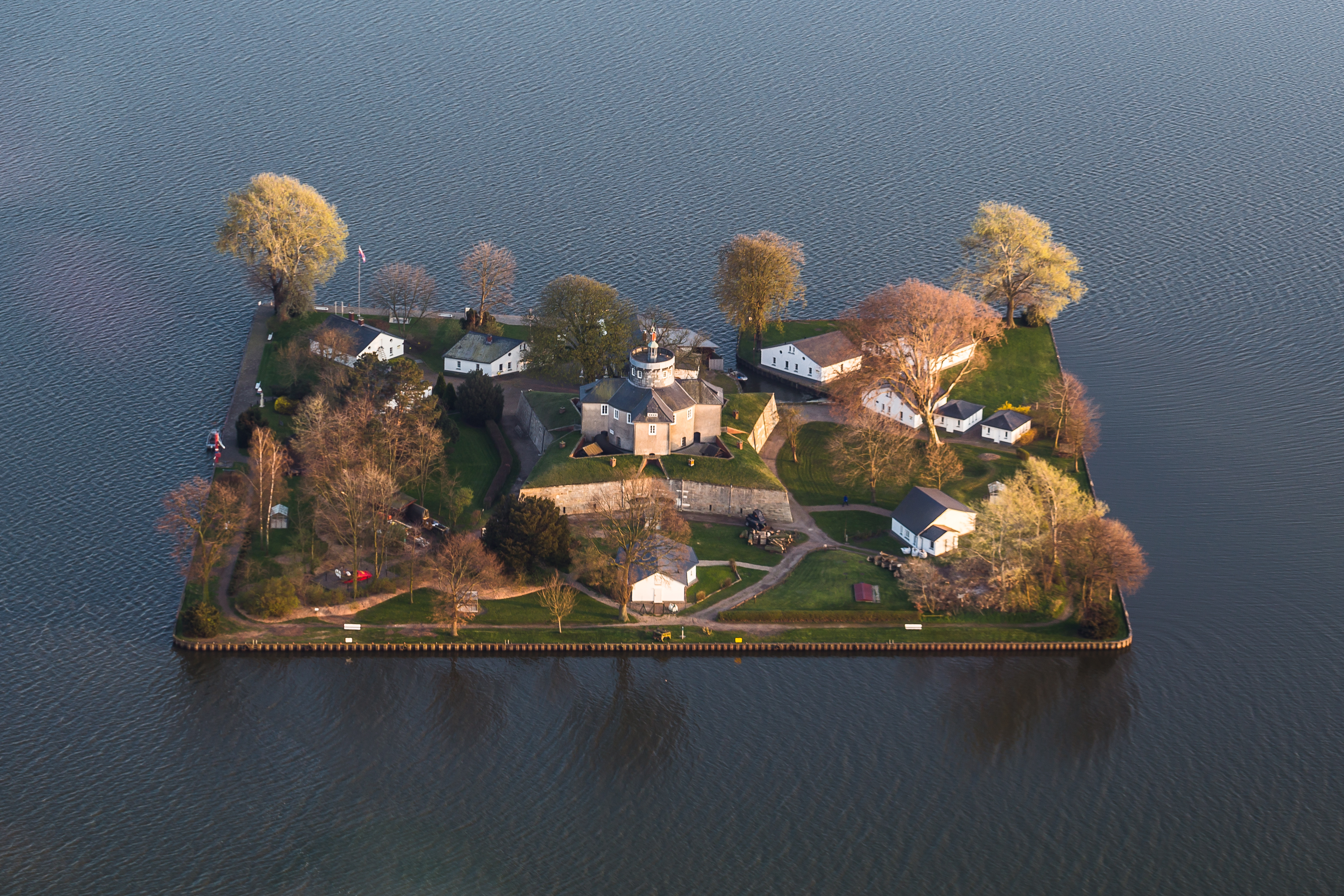 "Wilhelmstein" island located in the lake "Steinhuder Meer" in Lower Saxony.